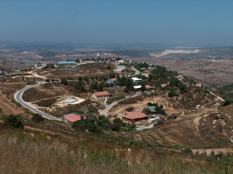 A view of the settlement Bat Ayin in Gush Etzion